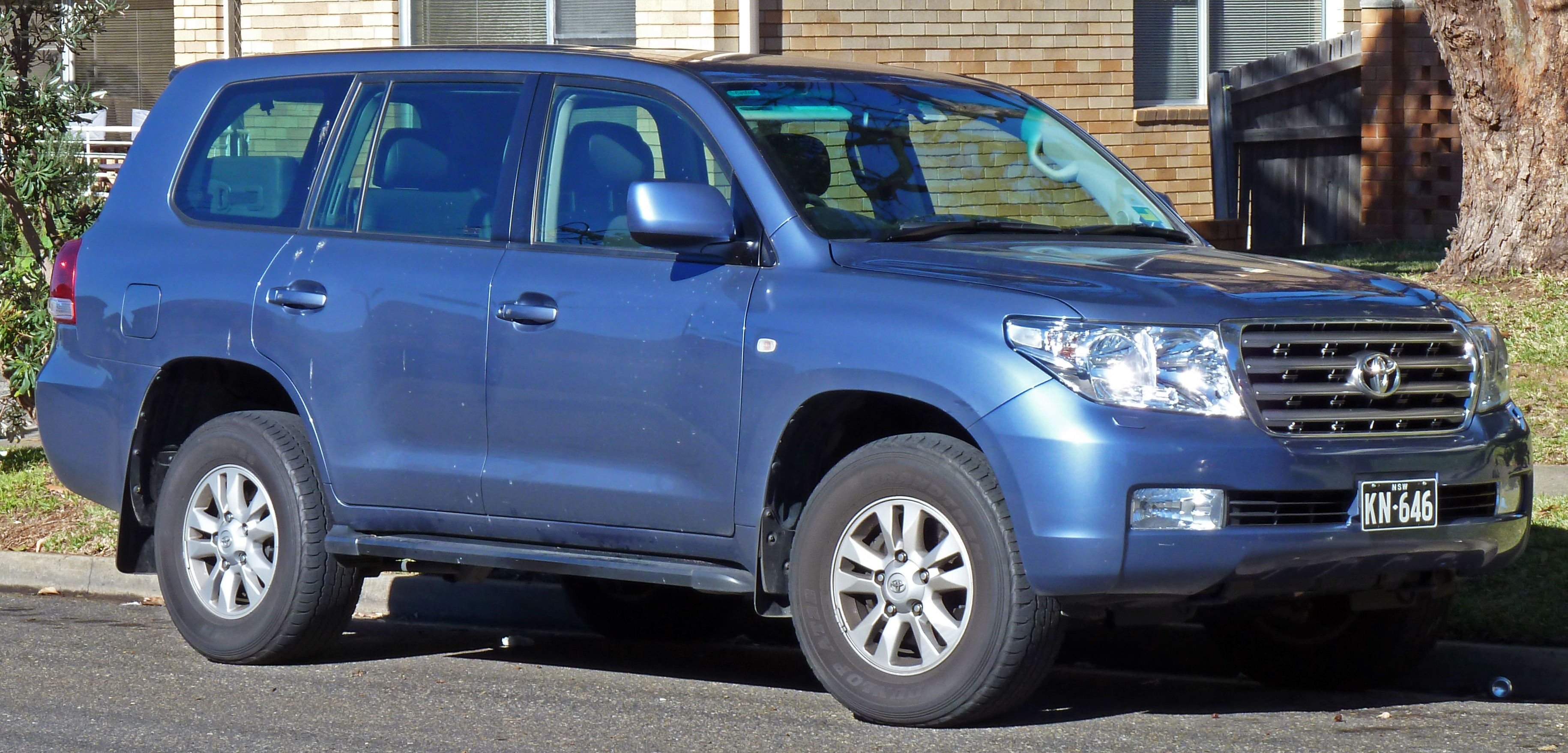 2008 Toyota Land Cruiser (UZJ200R) Sahara wagon. Photographed in Cronulla, New South Wales, Australia.